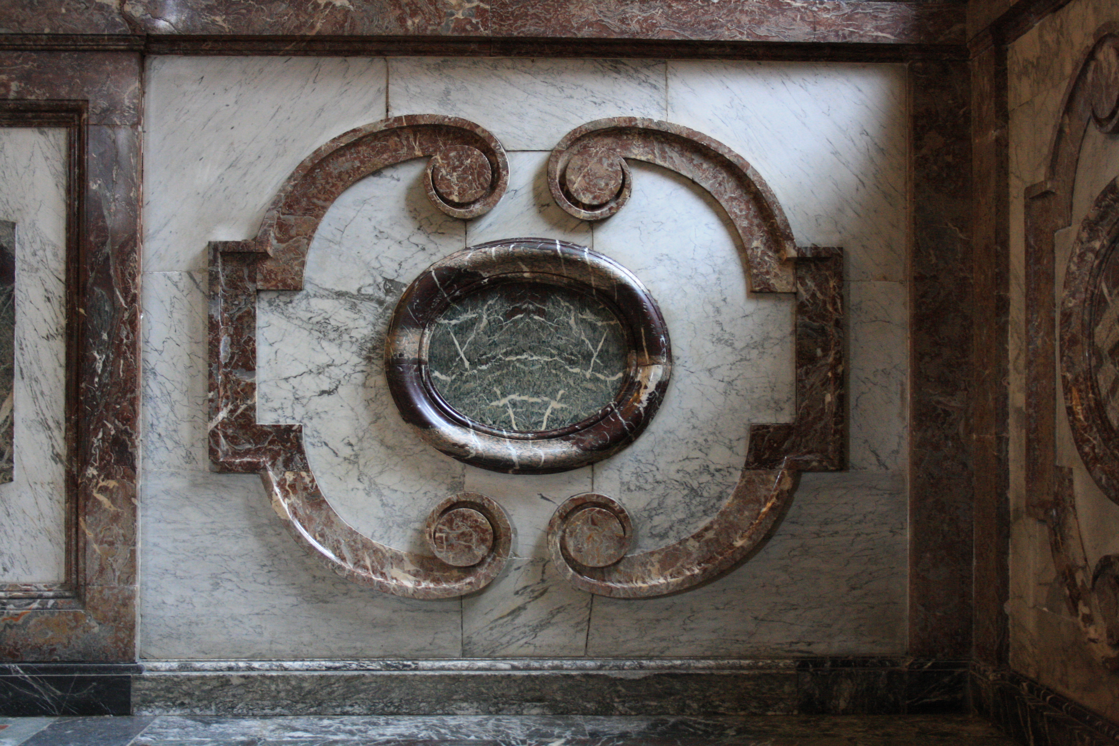 Detail of the Escalier de la Reine (Staircase of the Queen) made of marble in the Palace of Versailles in Versailles, France